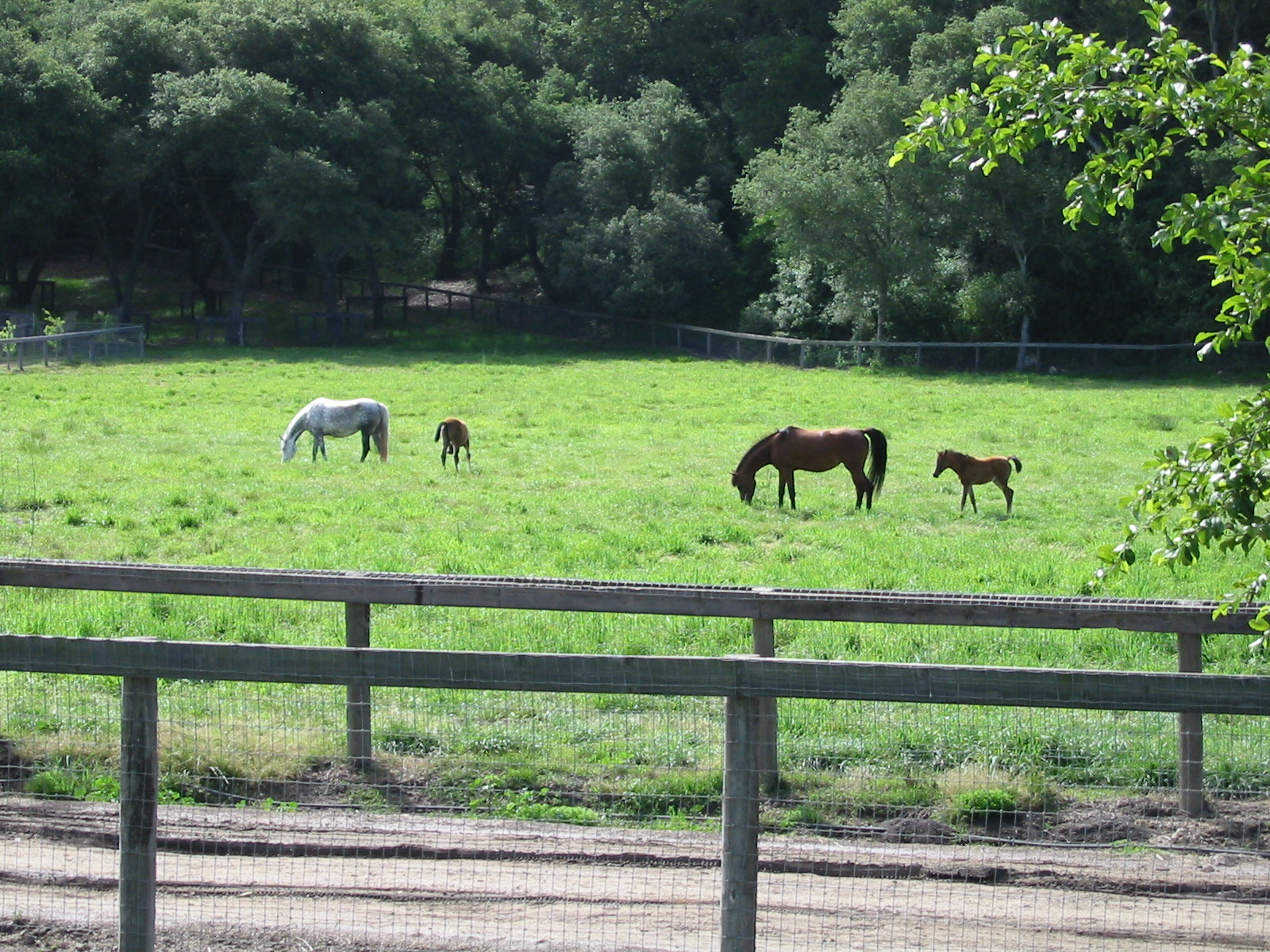 Mares and Foals at Varian Arabians Varian Arabians "Spring Fling" presentation of horses, 2002